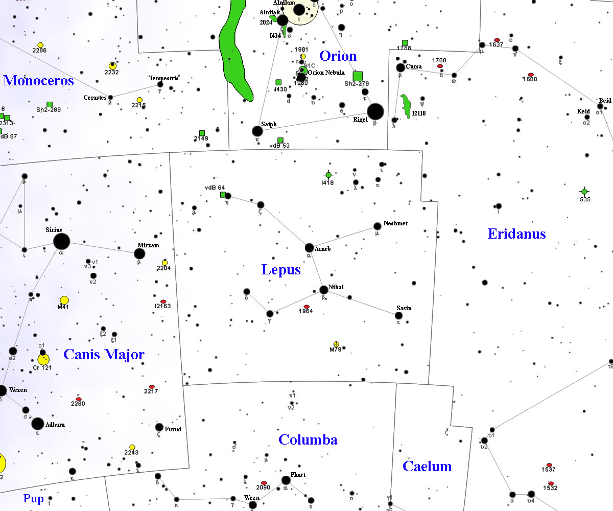 Lepus constellation map, with DSOs